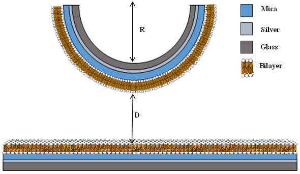 A typical SFA setup shown using a geometrically equivalent model.